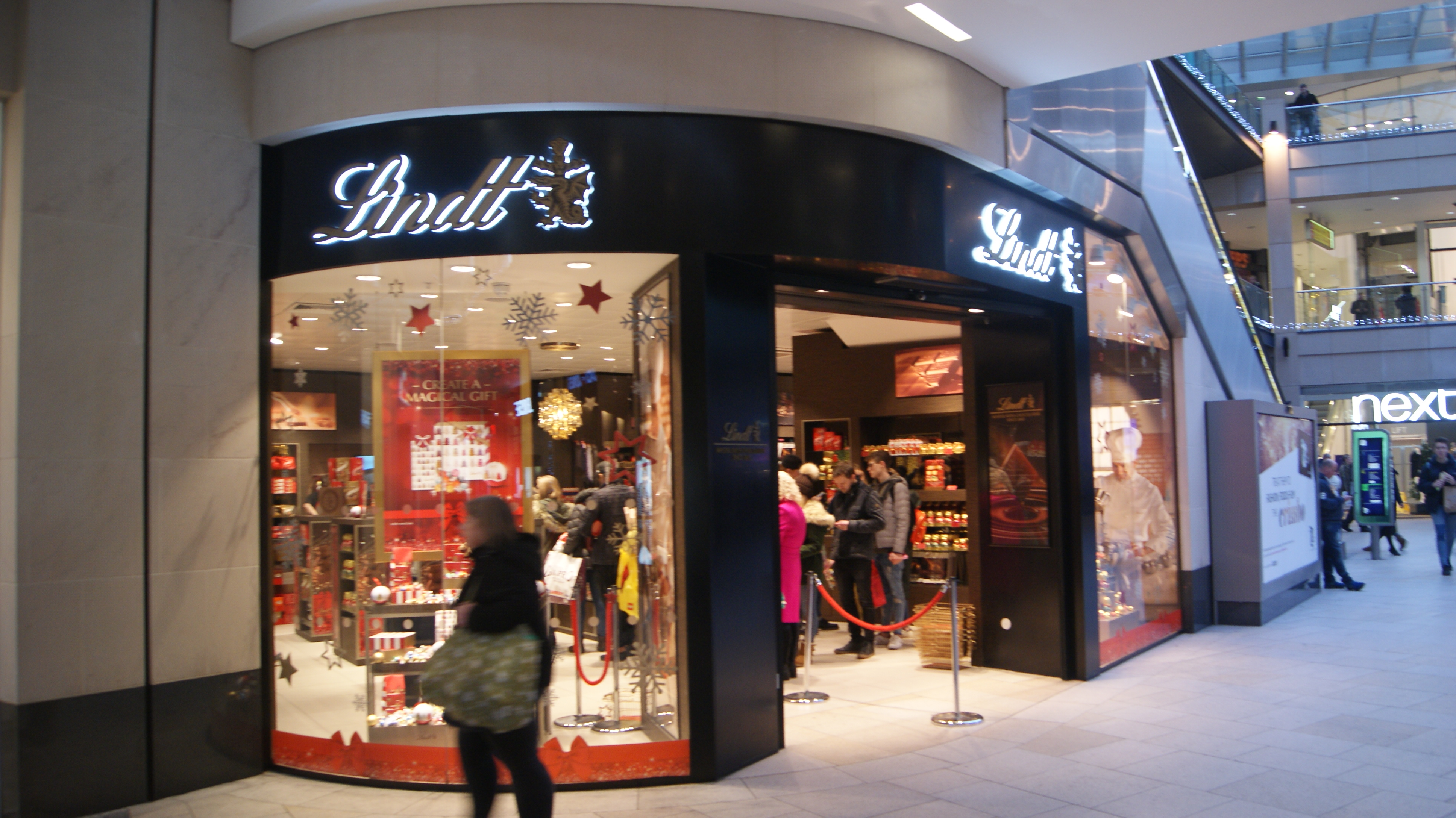 Lindt, Trinity Leeds, Leeds, West Yorkshire. Taken on the afternoon of Friday the 1st of December 2017.